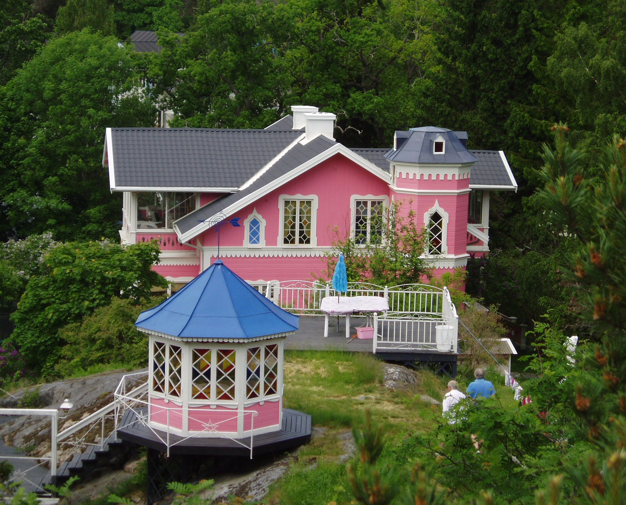 Frankenburg, villa in Boo, Nacka municipality, Sweden